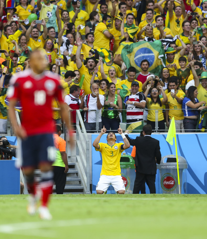 Brazil and Colombia match at the FIFA World Cup 2014-07-04